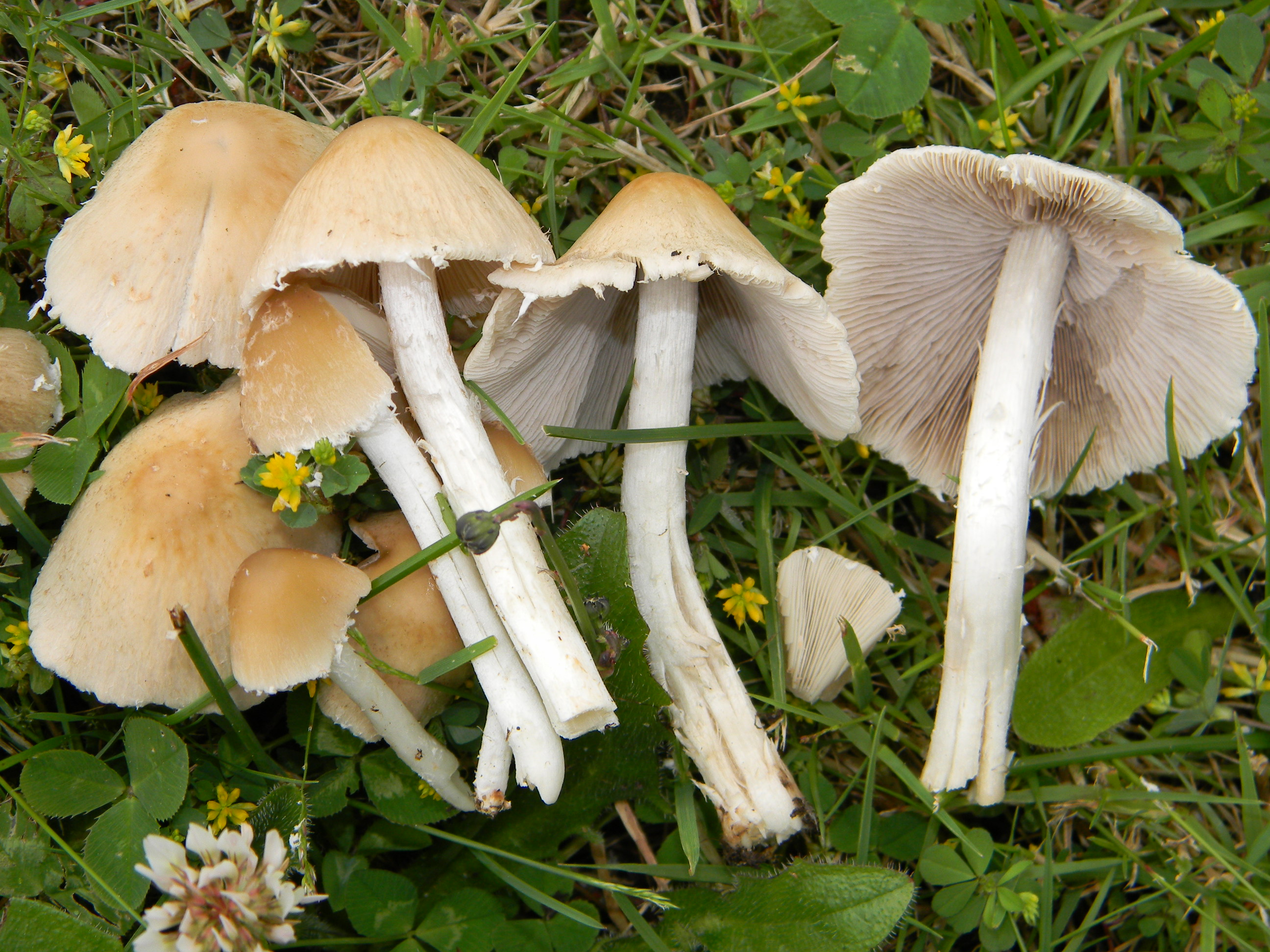 Psathyrella candolleana from Briarcrest Neighborhood, Shoreline, Washington, USA